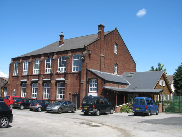 St Sebastian's School - (now L’Arche ) Lockerby Road St Sebastian's School first opened in May 1909 with 131 pupils. The school moved to a new building in Holly Road in 1980 but the old school is still in use today by the L"Arche community. "L’Arche Liverpool is Christian Community of 150 people in central Liverpool where people with and without learning disabilities live and work together. It was a Dominican priest called Père Thomas Philippe who helped Jean Vanier 'begin something' with people with learning disabilities, about 40 years ago in France. Jean, originally an officer in the Royal Navy, had become an academic in Canada, but he felt increasingly called to this different life. He met two men called Raphael Simi and Philippe Seux who were living in a large institution near Paris - the only home they'd known for many years. Jean invited them to come and make a home with him. He knew he could not help everyone, but that by helping a few, together they might be a sign to others. L'Arche first arrived in the UK in 1974 with help from Jean's sister, Thérèse, a London doctor. The first community opened in Kent. There are now nine communities in the UK." Information taken from the website below